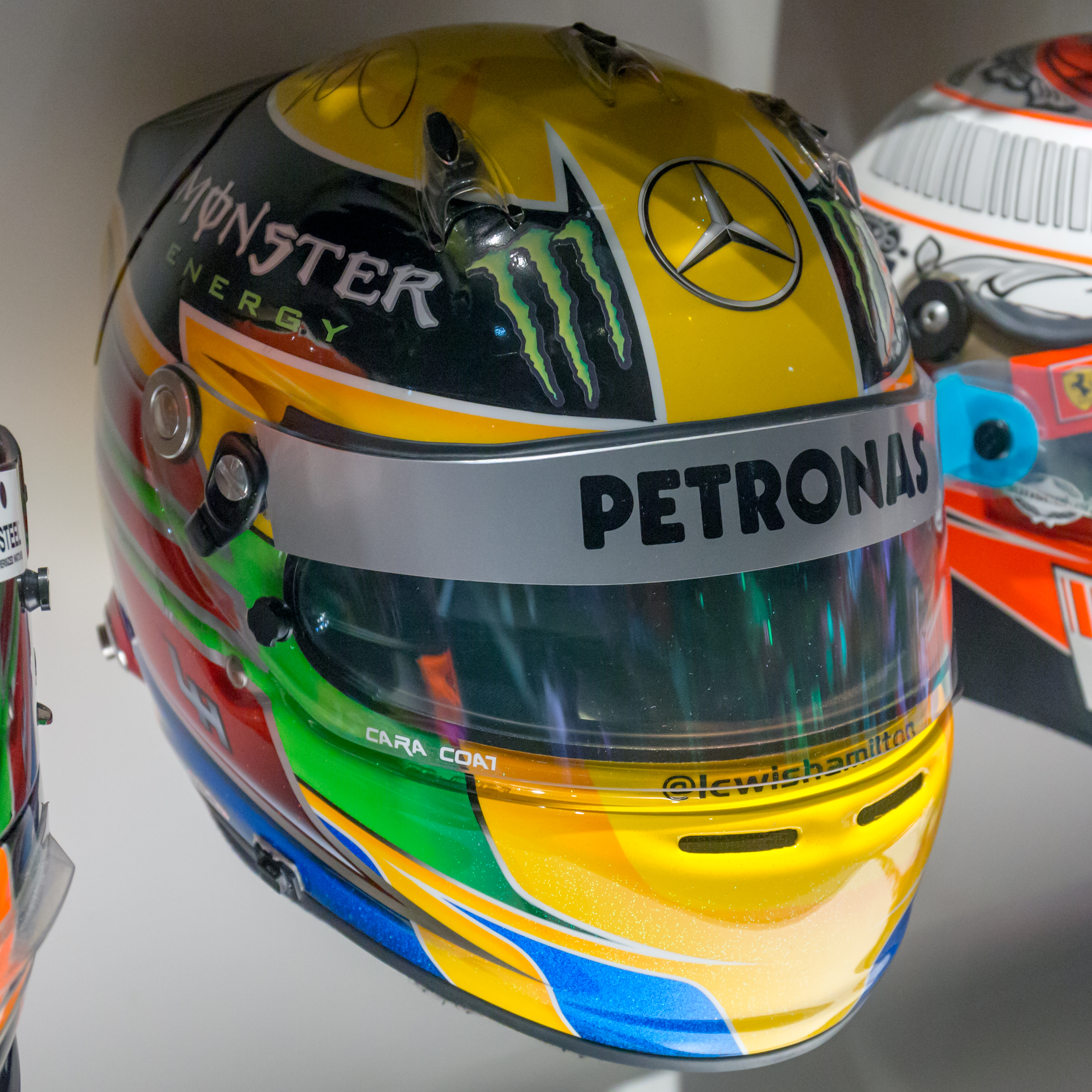 Museo y Circuito Fernando Alonso: Lewis Hamilton's helmet in 2013